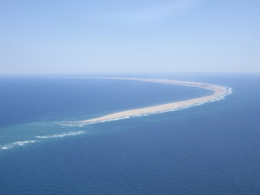 Aerial view of Sable Island, Nova Scotia, Canada. Taken from NW at approx 1500 ft.